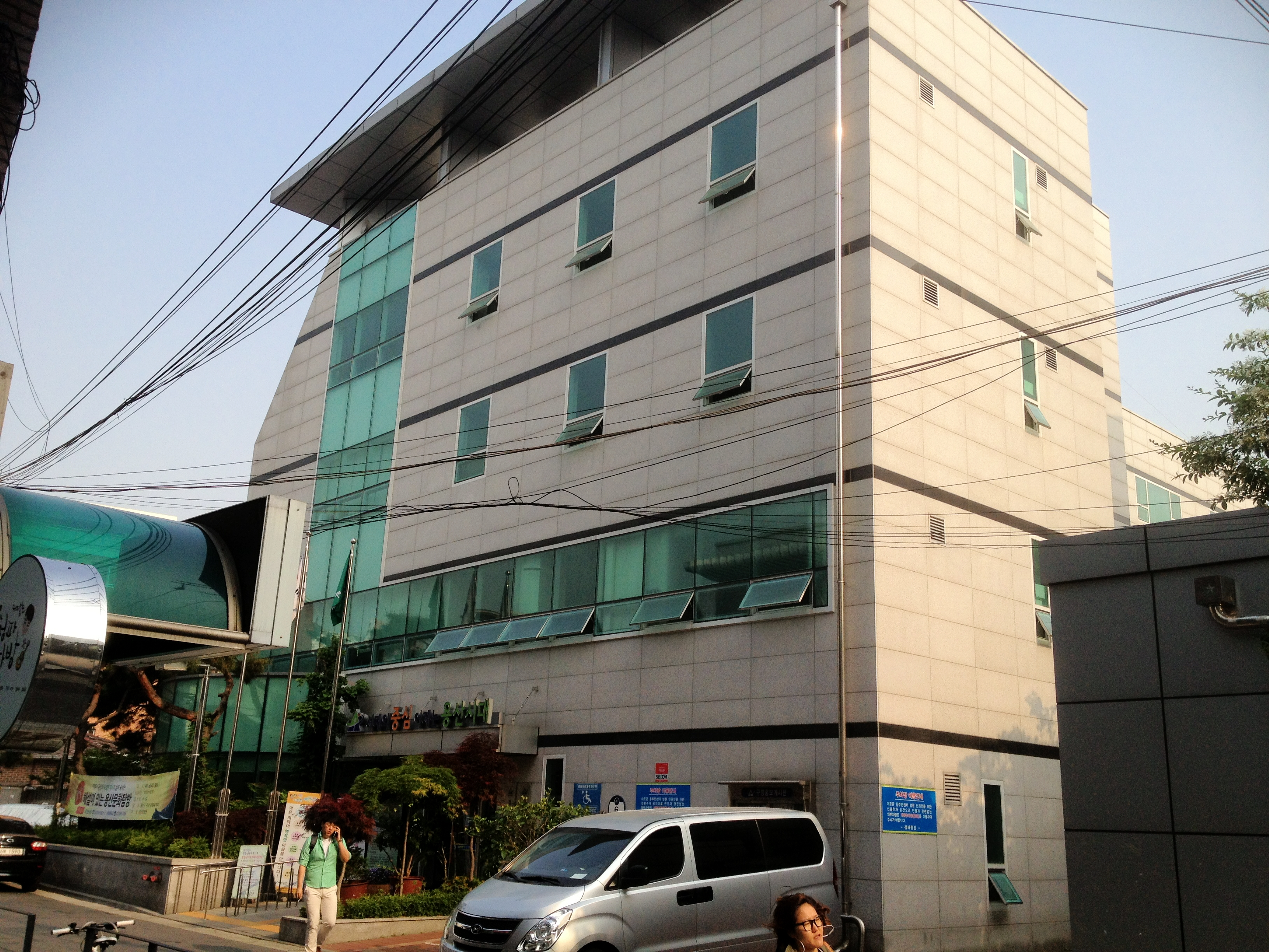 Cheongpa-dong Comunity Service Center(Yongsan-gu)